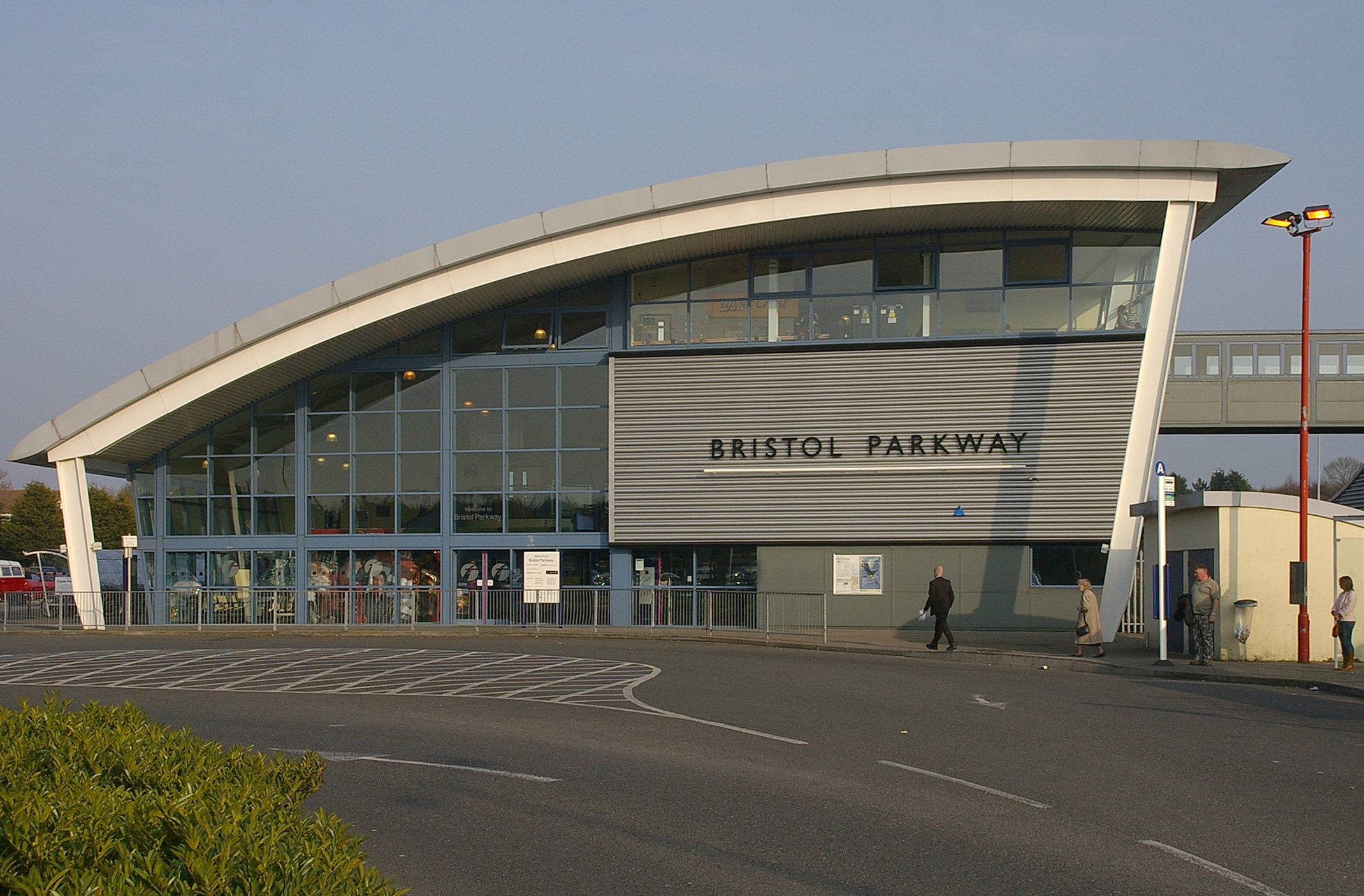 Bristol Parkway railway station front entrance.